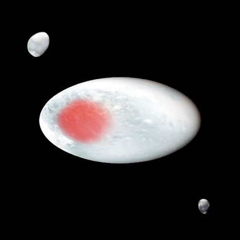 Artist's impression of Haumea and two small moons.